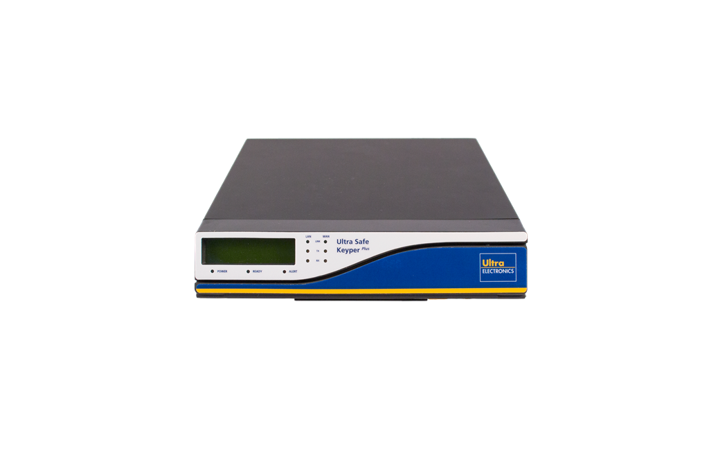 This is an image of the Keyper Plus Hardware Security Module from Ultra Electronics AEP.